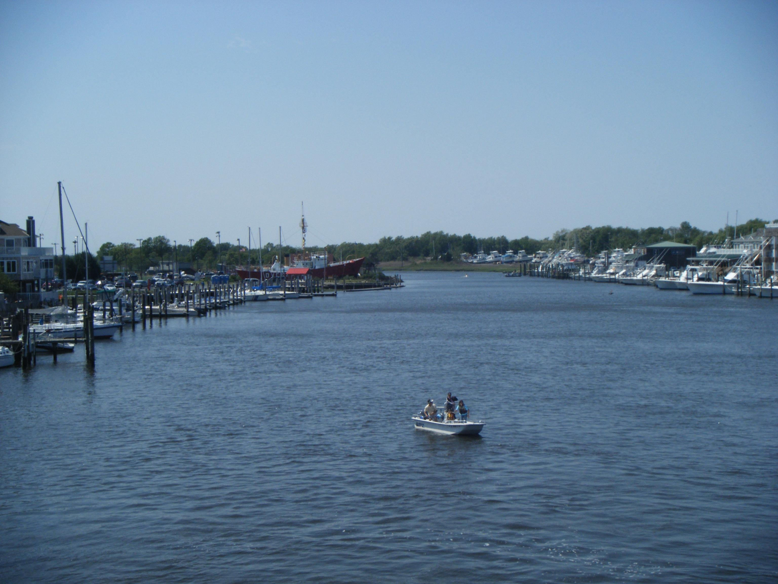 The Lewes and Rehoboth Canal in Lewes, Delaware, looking north from the Savannah Road drawbridge.